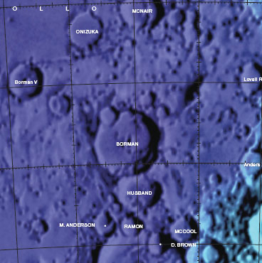 Colour-coded Lac 121 from USGS Digital Atlas